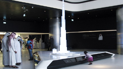 The Interpretation Centre for Burj Khalifa, the tallest skyscraper in the world, in the Dubai Mall, Dubai, United Arab Emirates